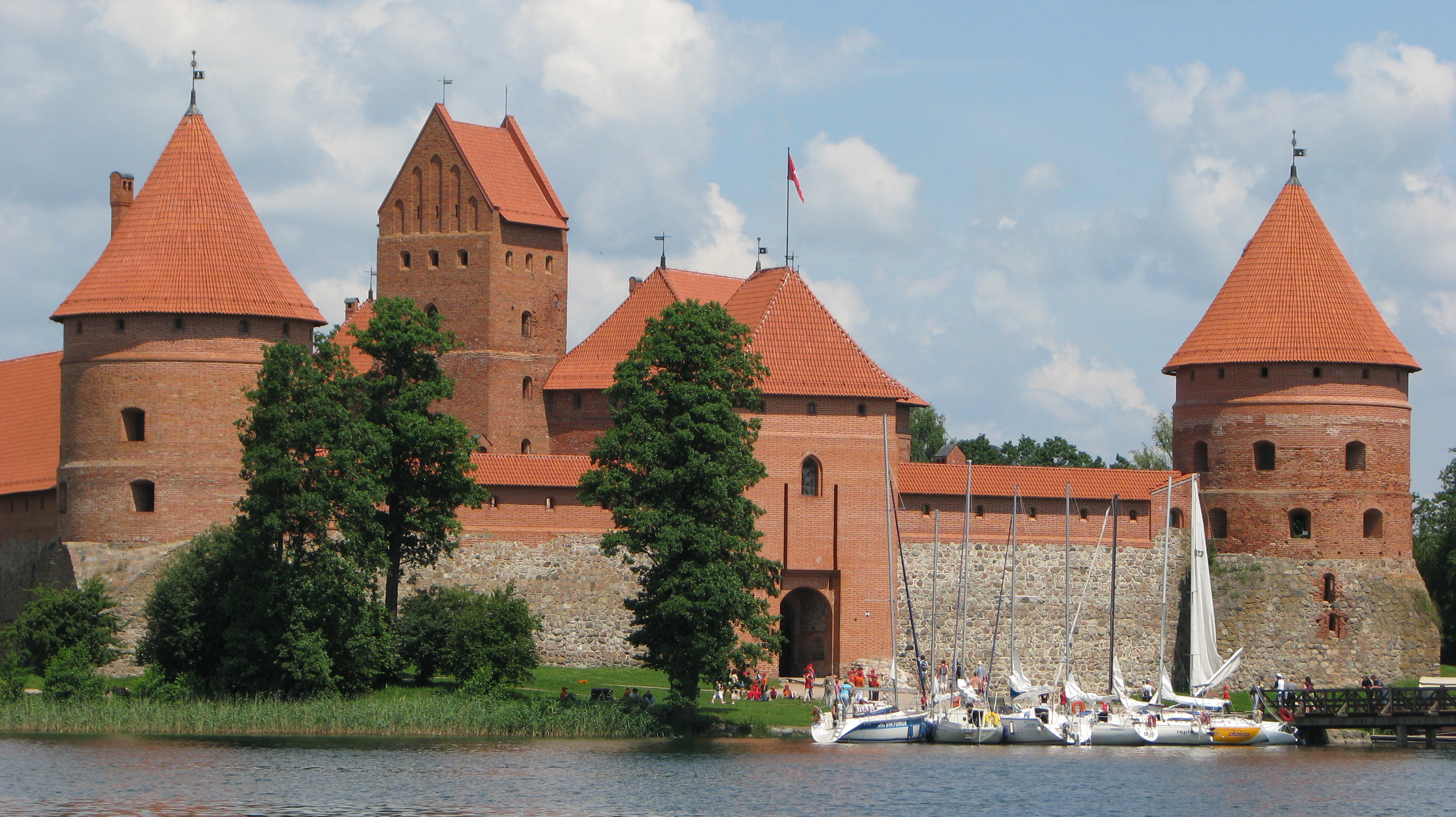 Front facade of the Trakai Island Castle in 2009.